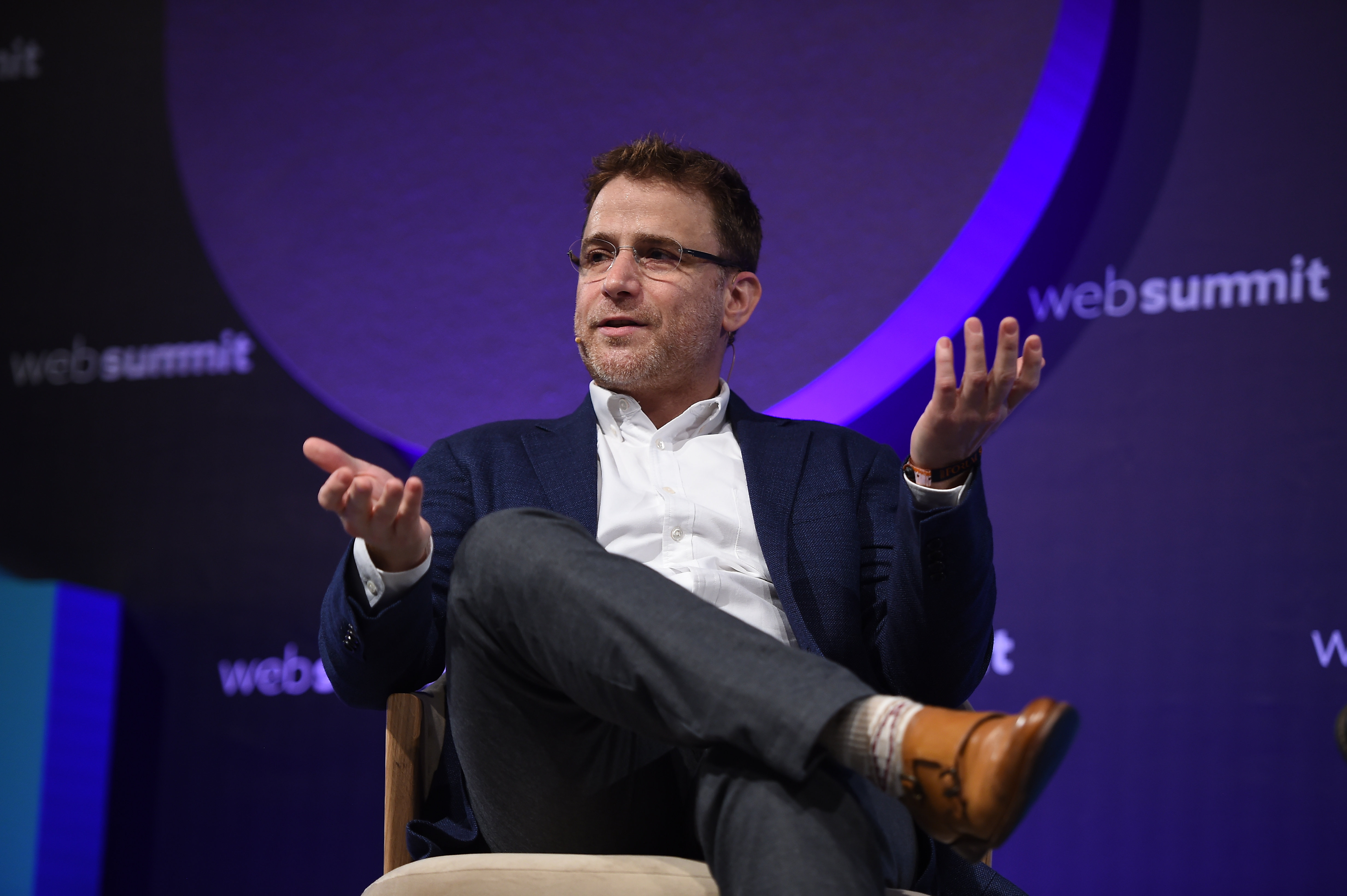 7 November 2017; Stewart Butterfield, Co-Founder & CEO, Slack, on the SaaS Monster Stage during the opening day of Web Summit 2017 at Altice Arena in Lisbon. Photo by Cody Glenn/Web Summit via Sportsfile